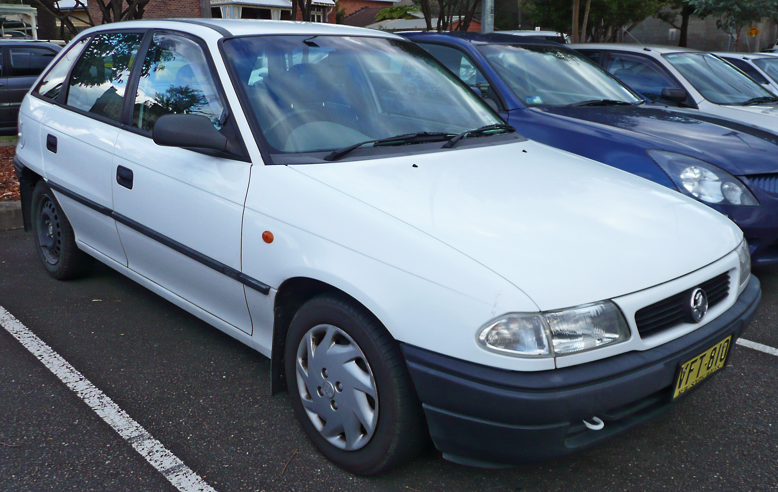 1998 Holden Astra (TR) City 5-door hatchback. Photographed in Sutherland, New South Wales, Australia.